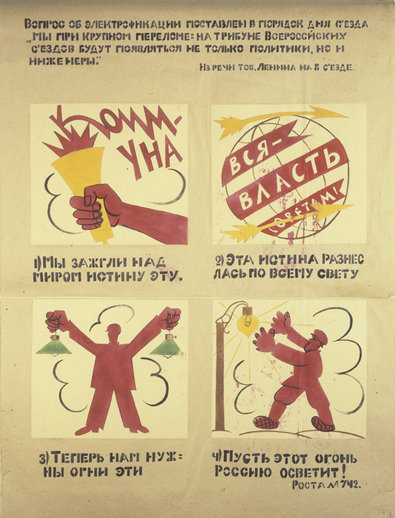 “Poster #742 "Rosta Windows" dedicated to Russia's electrification by Vladimir Mayakovsky”. Reproduction of the poster #742 "Rosta Windows" dedicated to Russia's electrification by poet and artist Vladimir Mayakovsky. The showpiece at the State Literature Museum. "Rosta Windows" - "Satirical Rosta Windows" - mass agitation art, posters created in 1919-1921 by Soviet artists and poets working in the Russian Telegraph Agency (Rosta).